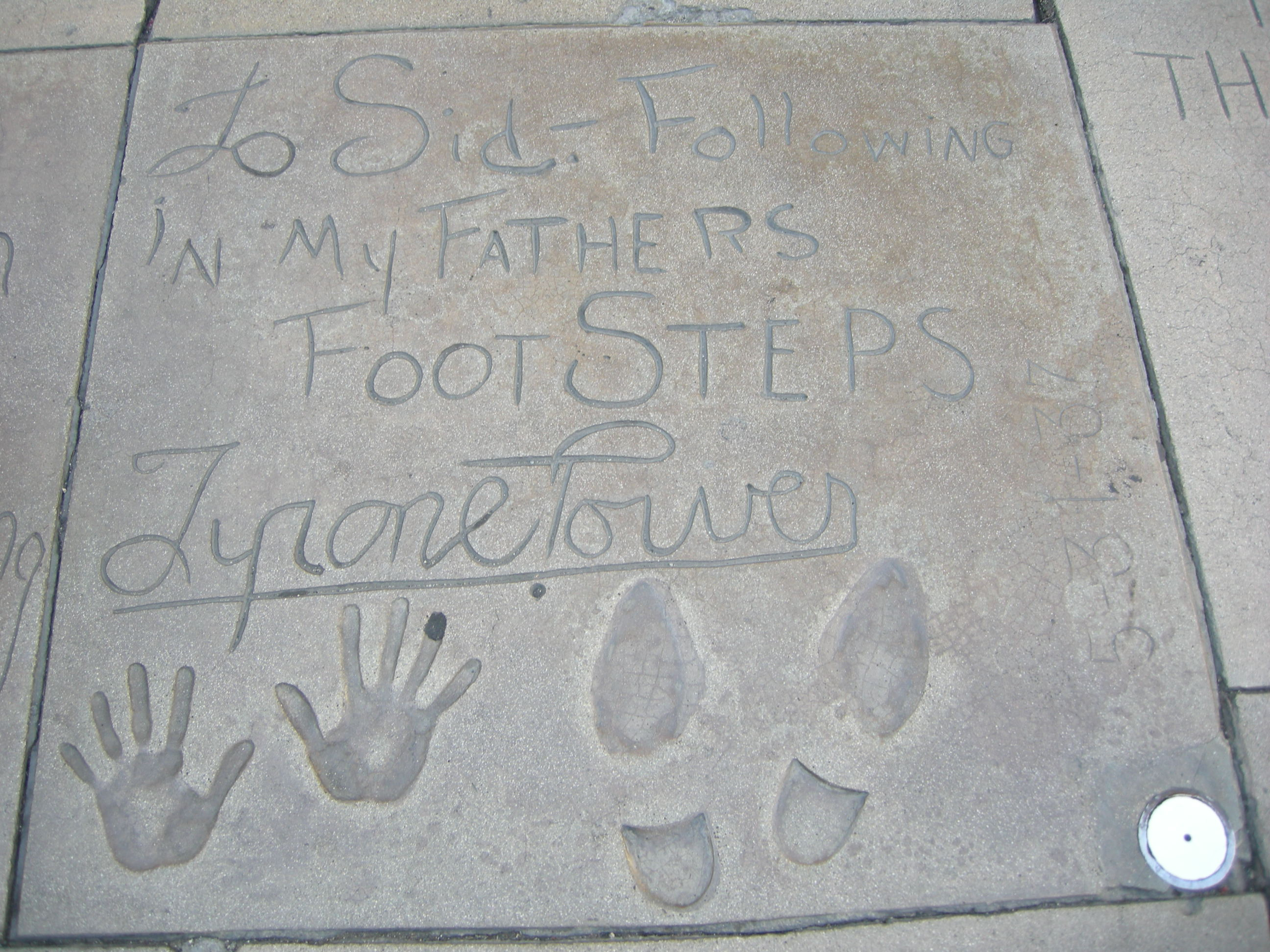 Grauman's Chinese Theatre, tyrone power